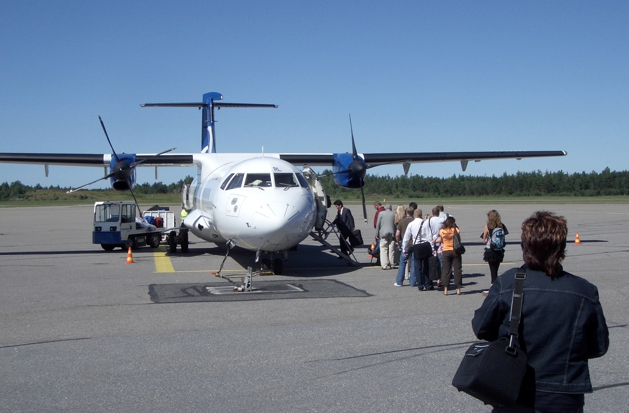 Passenger boarding an ATR 72-201 aircraft (ES-KRL) of Aero Airlines at Turku Airport on 14 July 2006. The flight is departing for Helsinki.